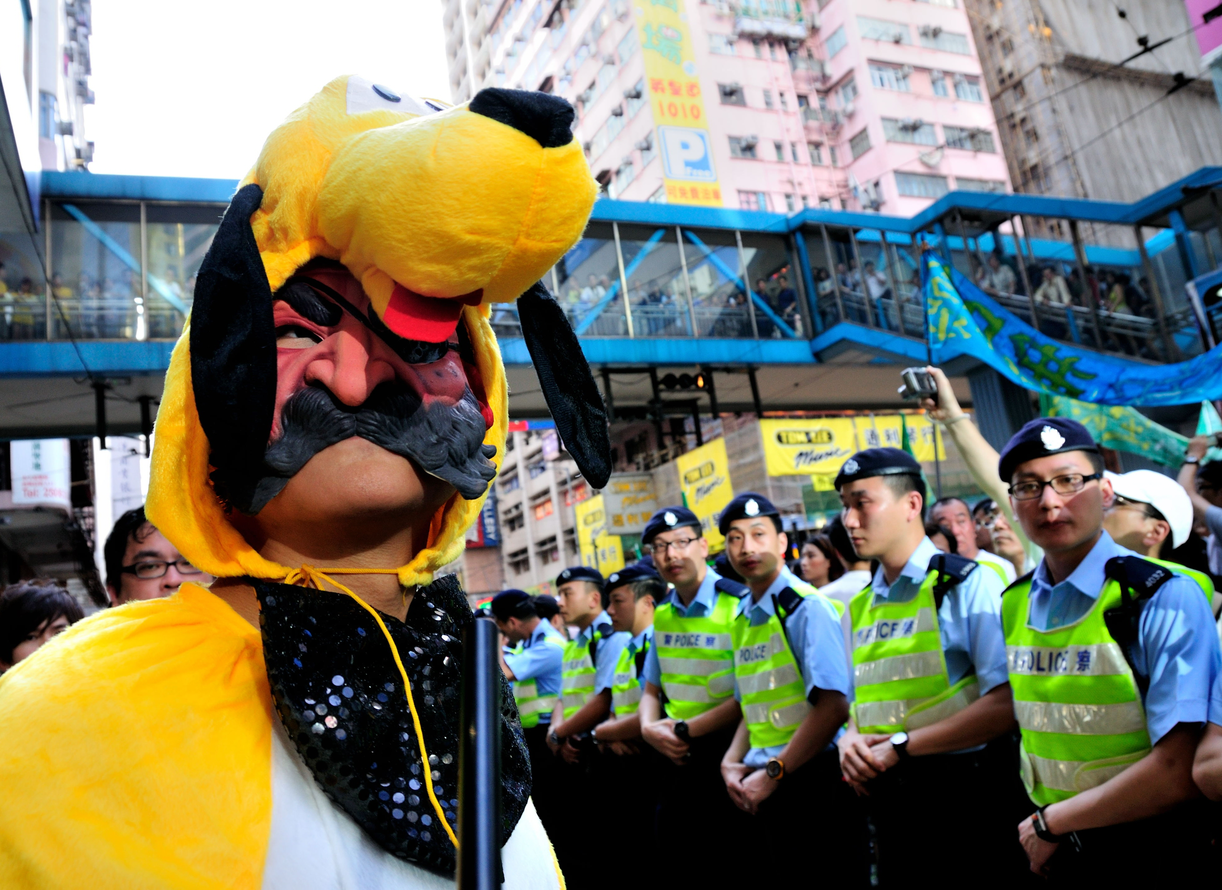 Hong Kong July 1 march 2010